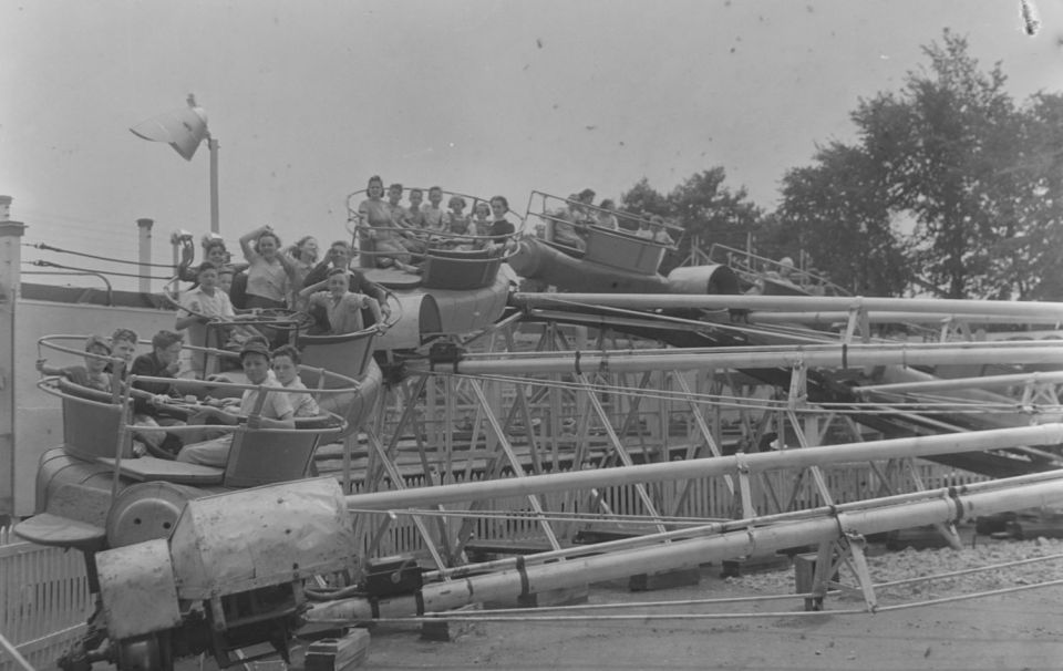 We see children and educators in vats turning around an axis at Belmont Park in Cartierville in Montreal.